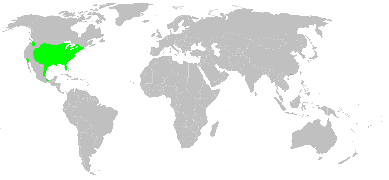 Known world distribution of Phidippus audax, after data from G. B. Edwards (2004).